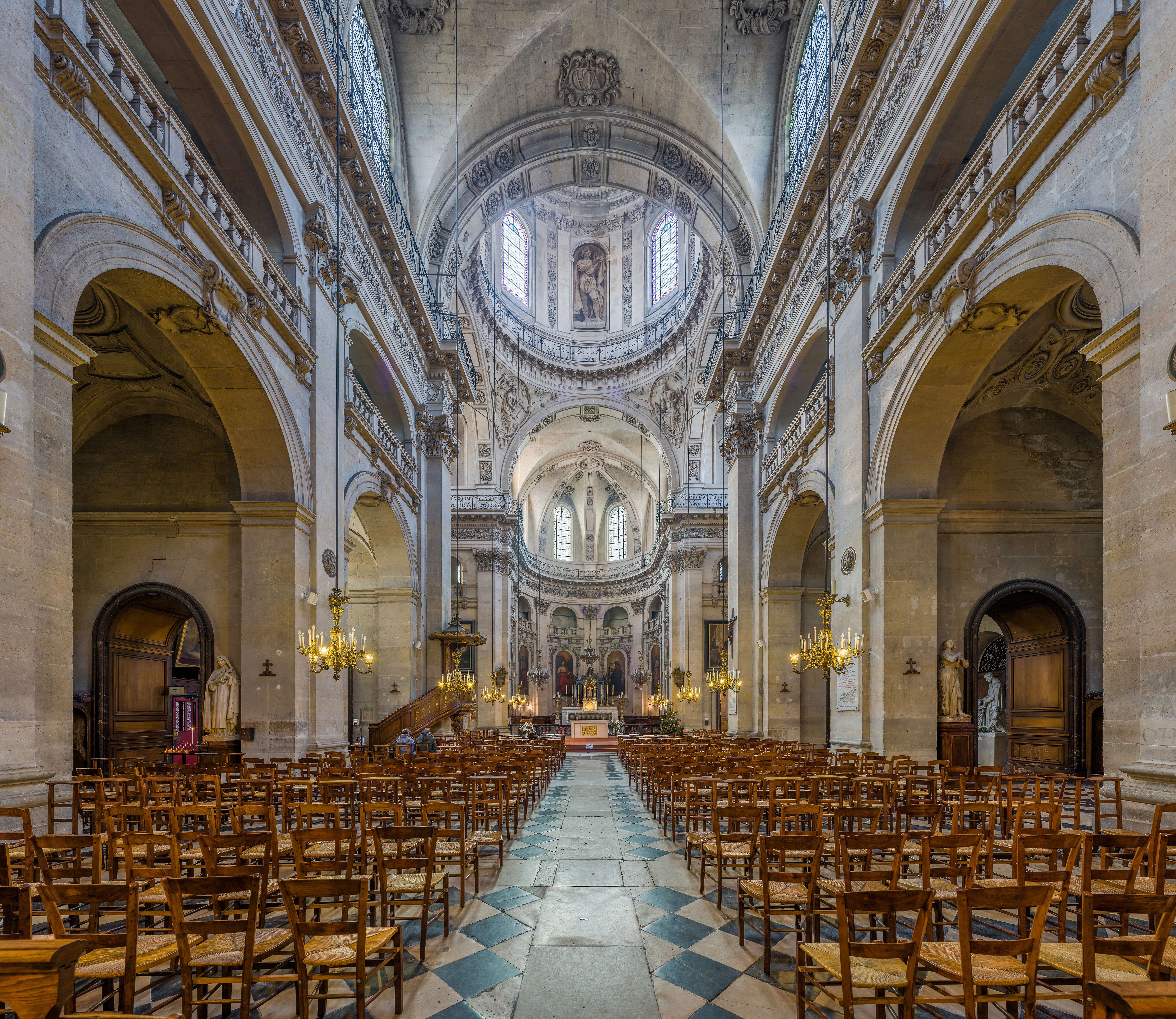 The interior of Saint-Paul-Saint-Louis Church in Paris, France